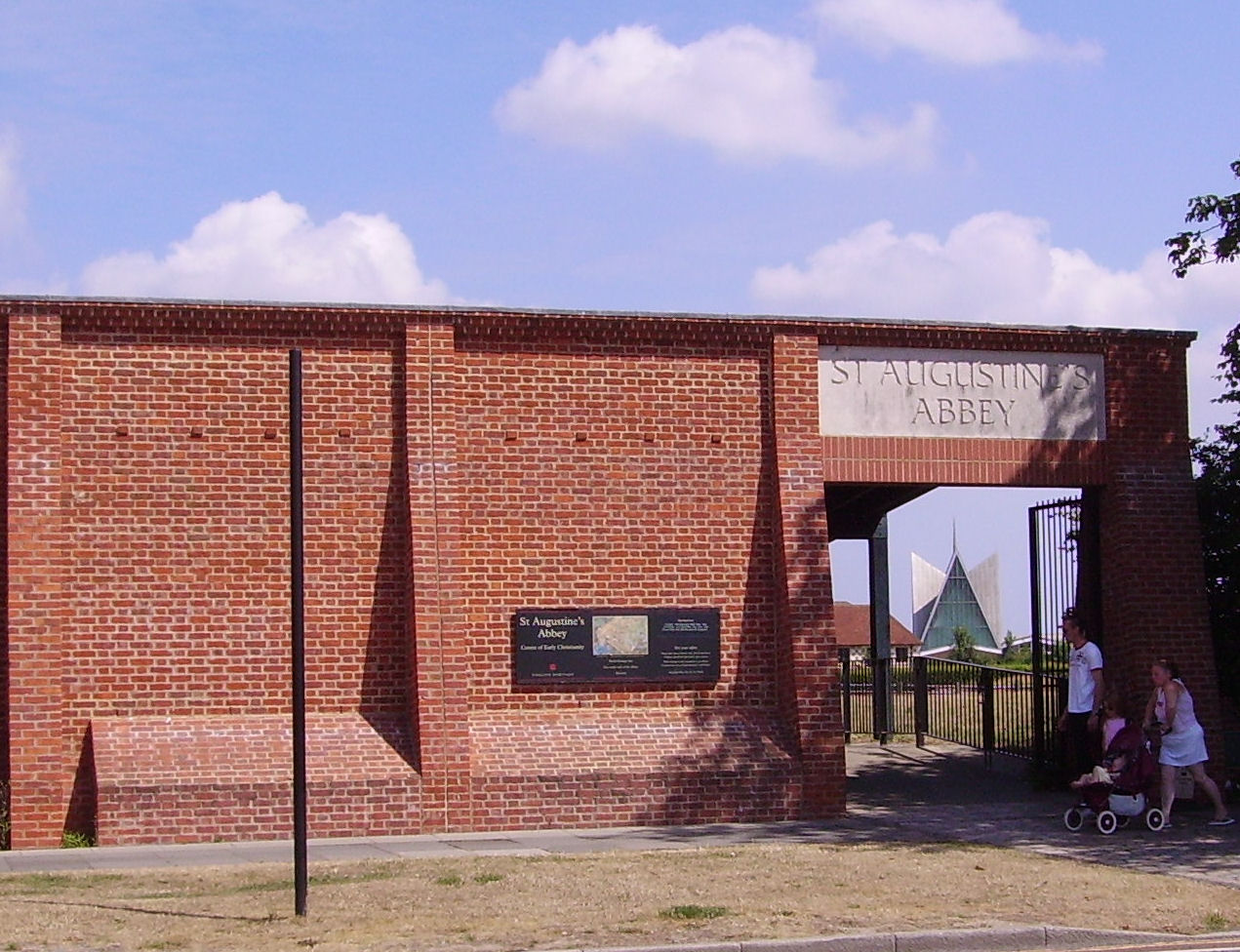 monastery in Canterbury in Kent, United Kingdom